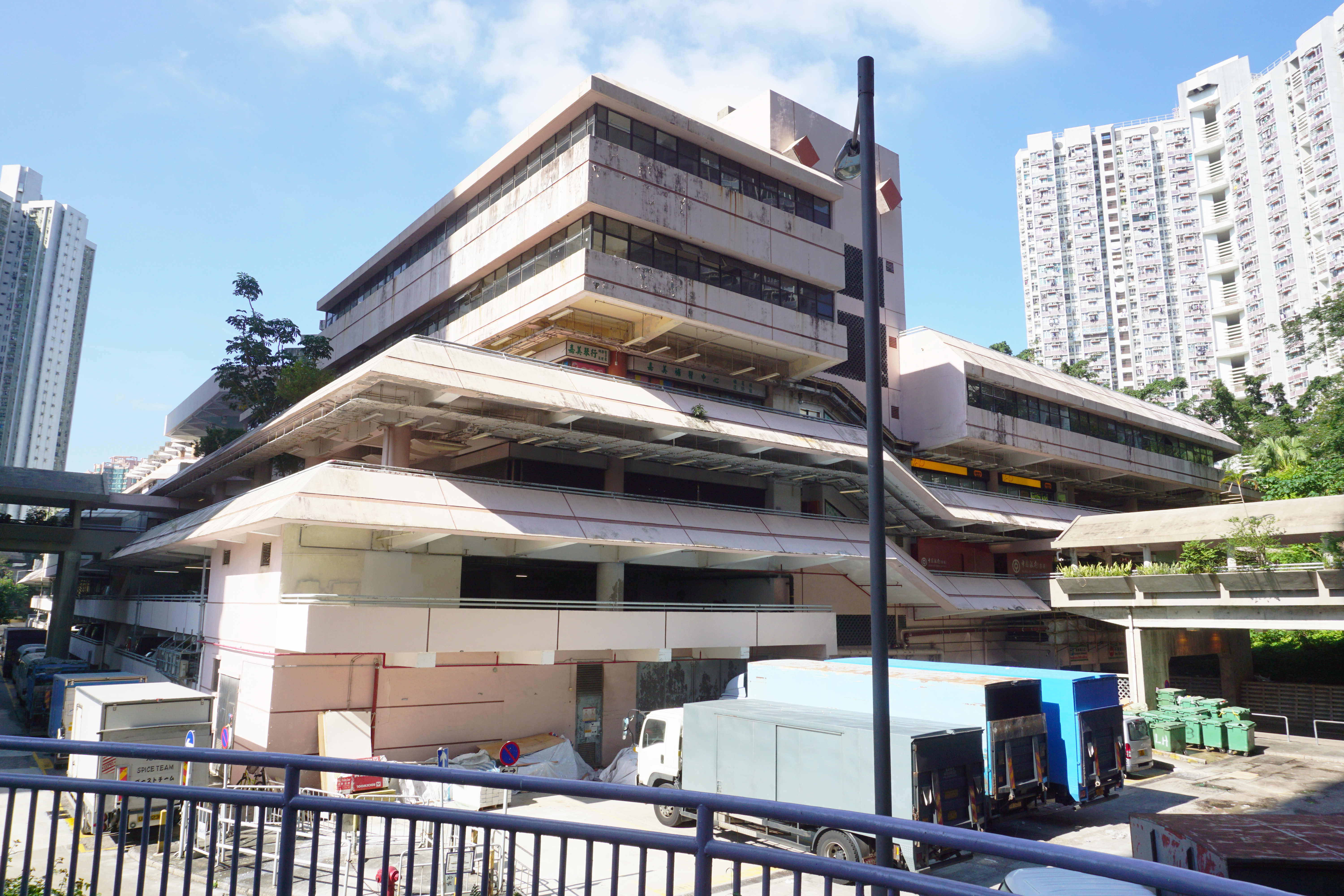 Heng On Shopping Centre in Heng On, Hong Kong.